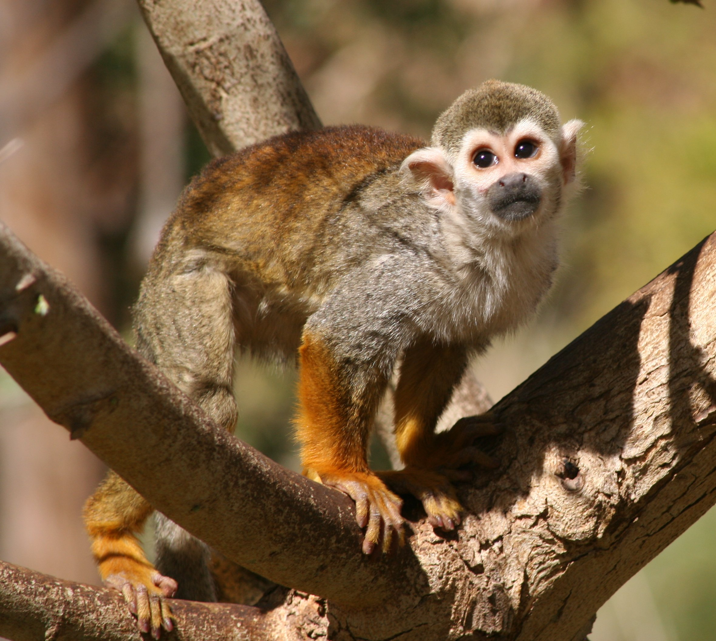 Common squirrel monkey (Saimiri sciureus). Photographed at the Phoenix Zoo, Phoenix, AZ.